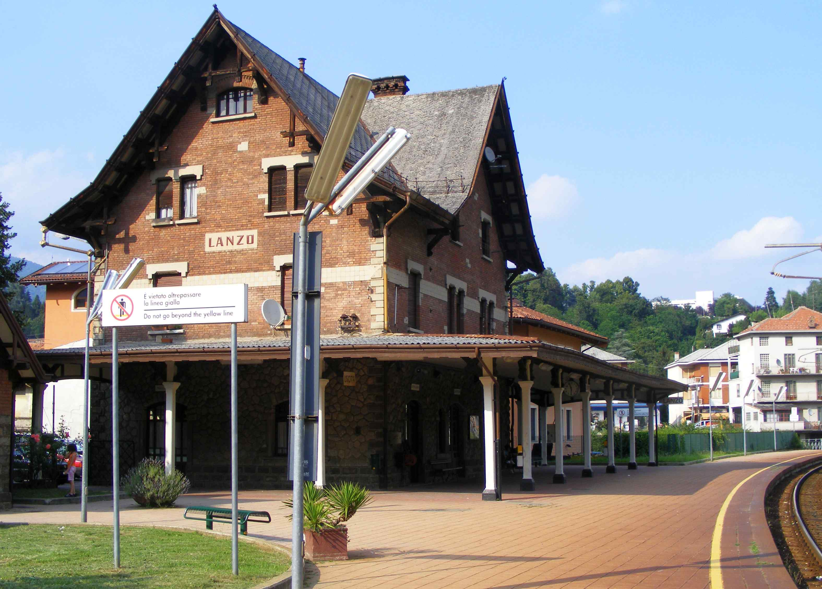 Lanzo Torinese train station